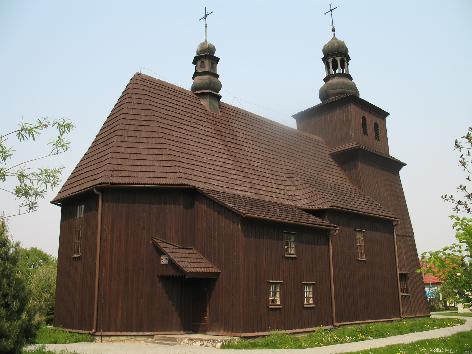 St. John the Baptist's Church in Kraków Krzesławice, 17th century, wooden architecture.